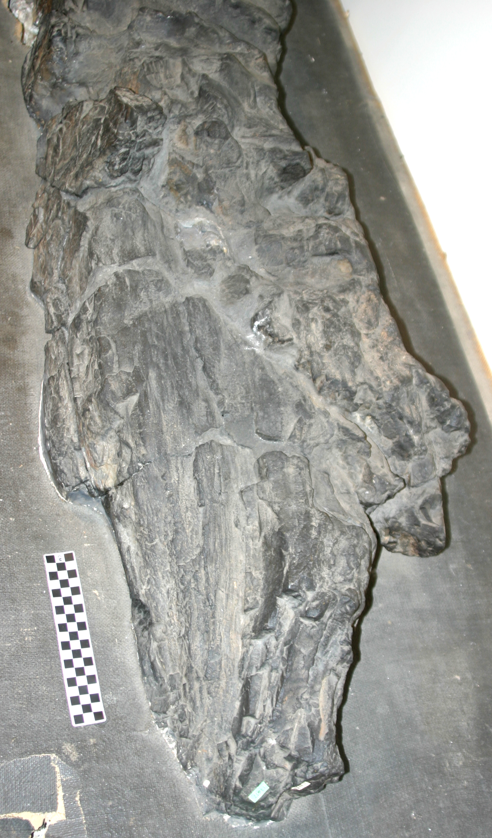 Apex opf the "Schunnemunk tree" of Prototaxites loganii from the middle Devonian Bellvale Sandstone near Monroe, New York